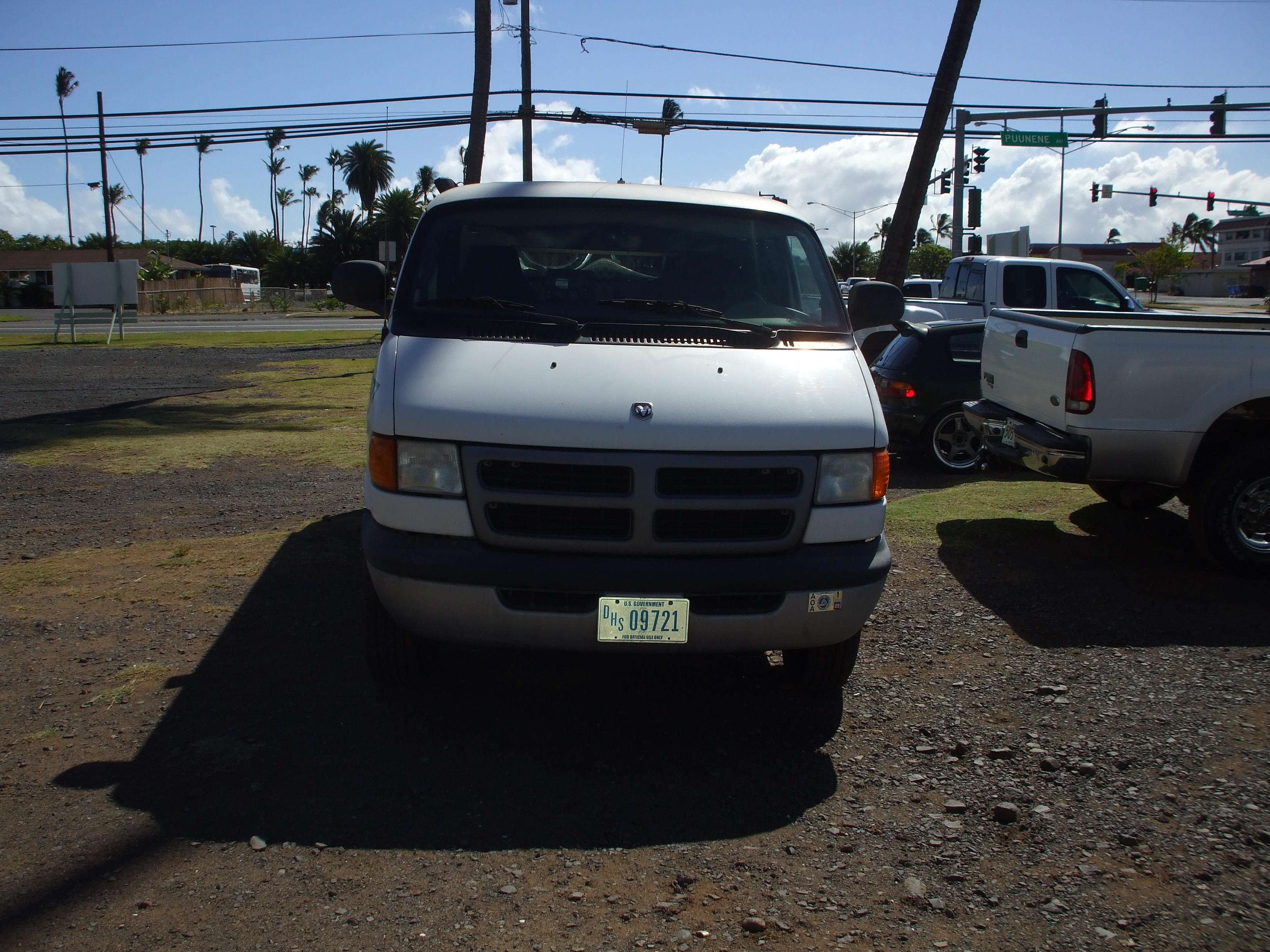 Department of Homeland Security Van. Dodge Ram 3500 Series Van. Frontal View.